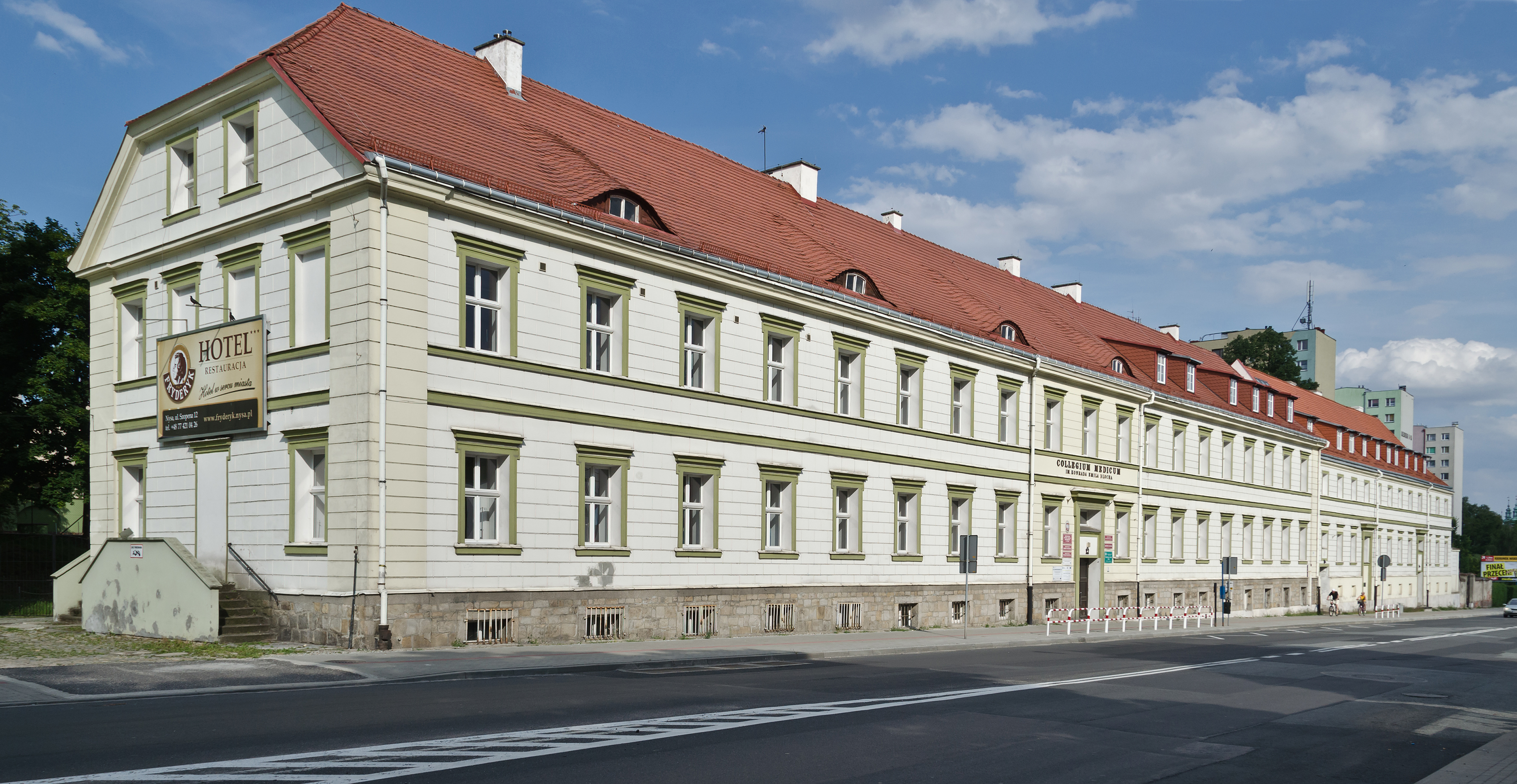 12 Ujejskiego Street in Nysa